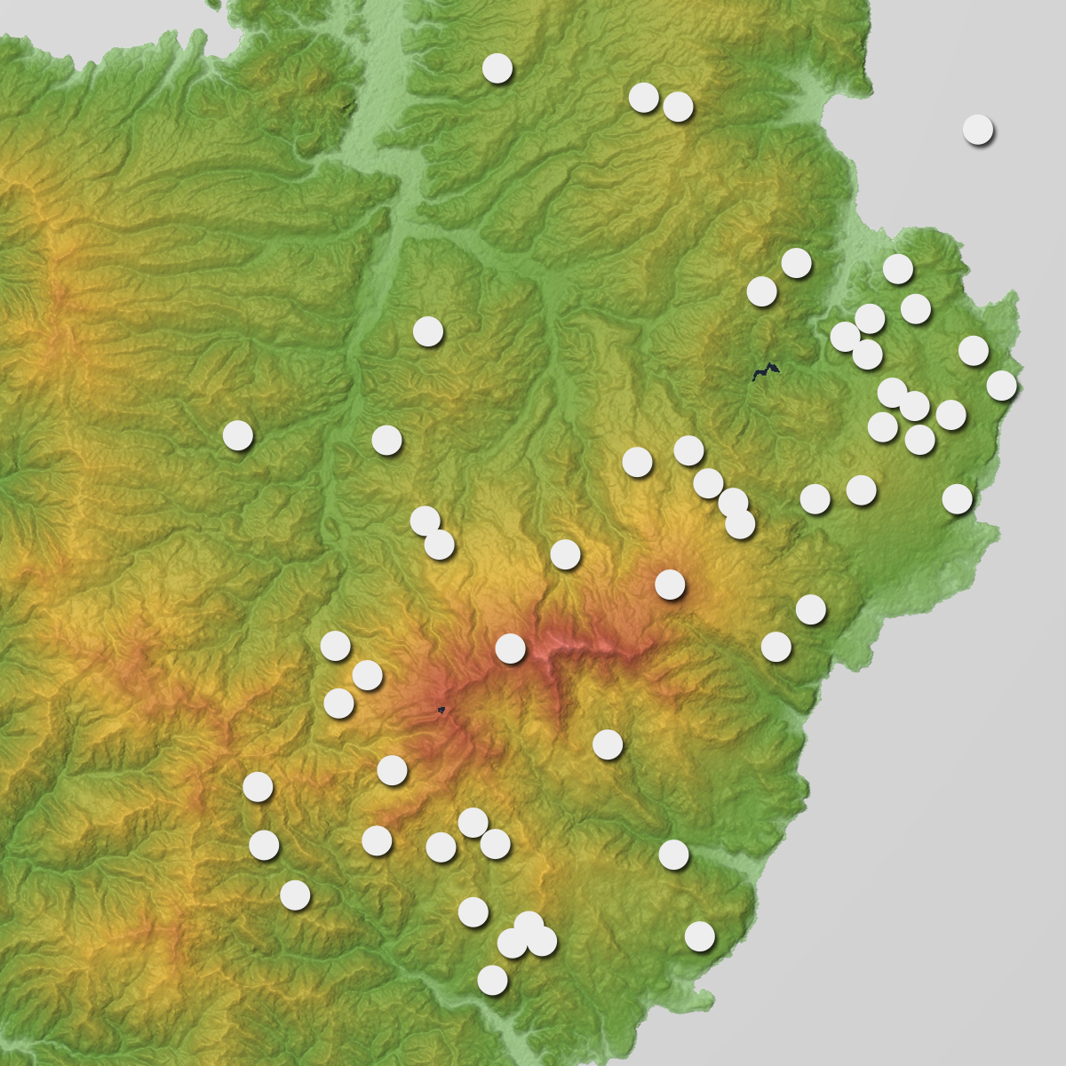 Distribution map of Izu-tobu Volcano Group in Izu Peninsula, Shizuoka Prefecture, Japan.